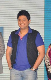 Actor Swapnil Joshi.